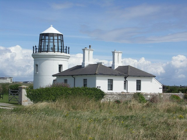 Old Higher Lighthouse, Portland Bill This was the original lighthouse of the three still standing. This one was built in 1716, and remained in use until 1906, when the new red and white lighthouse was opened closer to the sea at The Bill. This light has been in private ownership since that time, and was completely restored during the 1980s.